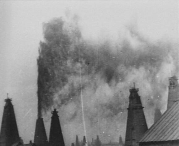 One of the first Azerbaijani films. "First oil in Balakhany" (Balaxanida neft fontani)Article about the film